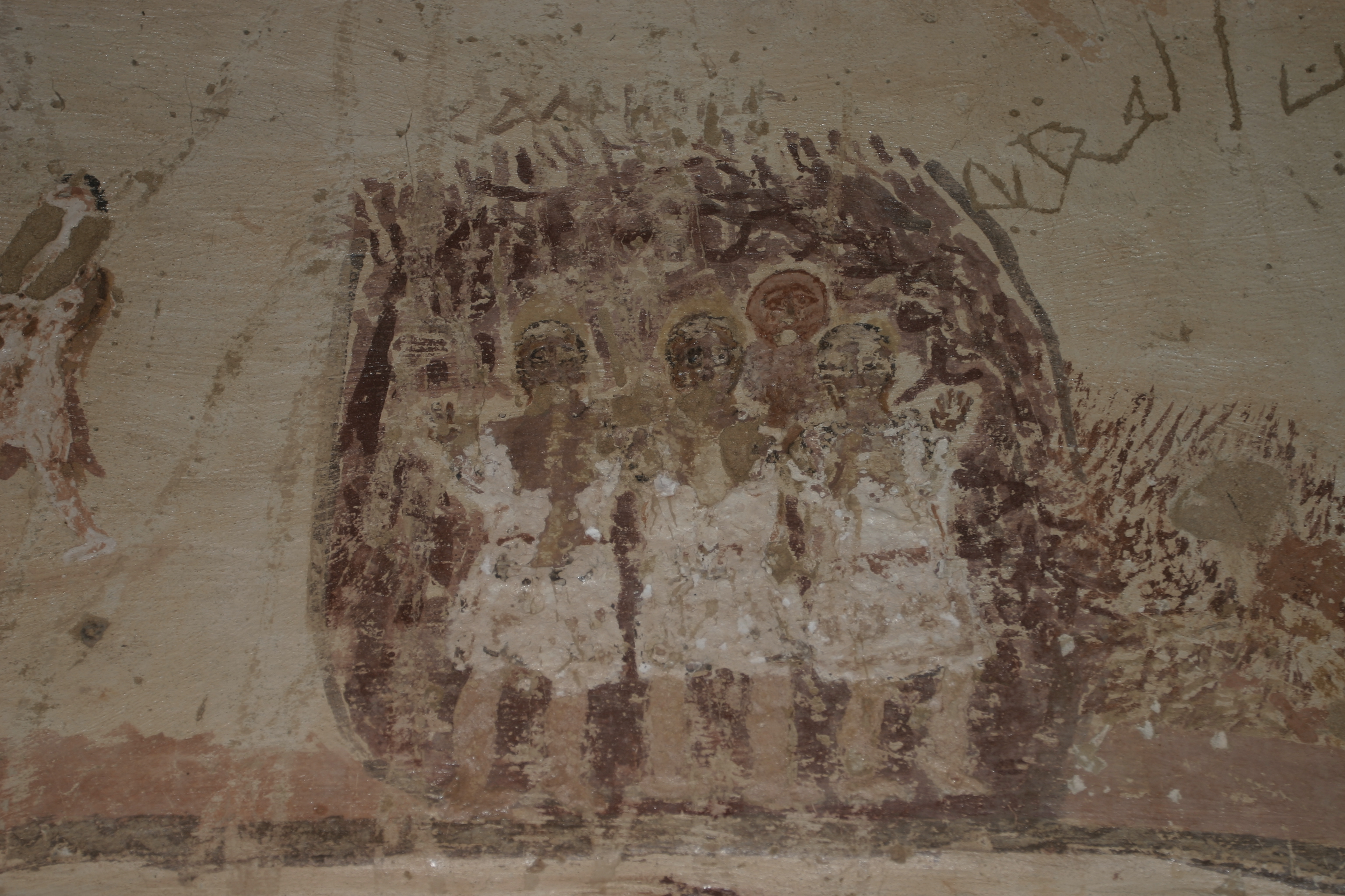 Al-Bagawat, also spelt as El-Bagawat, is an ancient Christian cemetery, one of the oldest in the world, which functioned at the Kharga Oasis in southern-central Egypt from the 3rd to the 7th century AD. It is one of the earliest and best preserved Christian cemeteries in the ancient world.